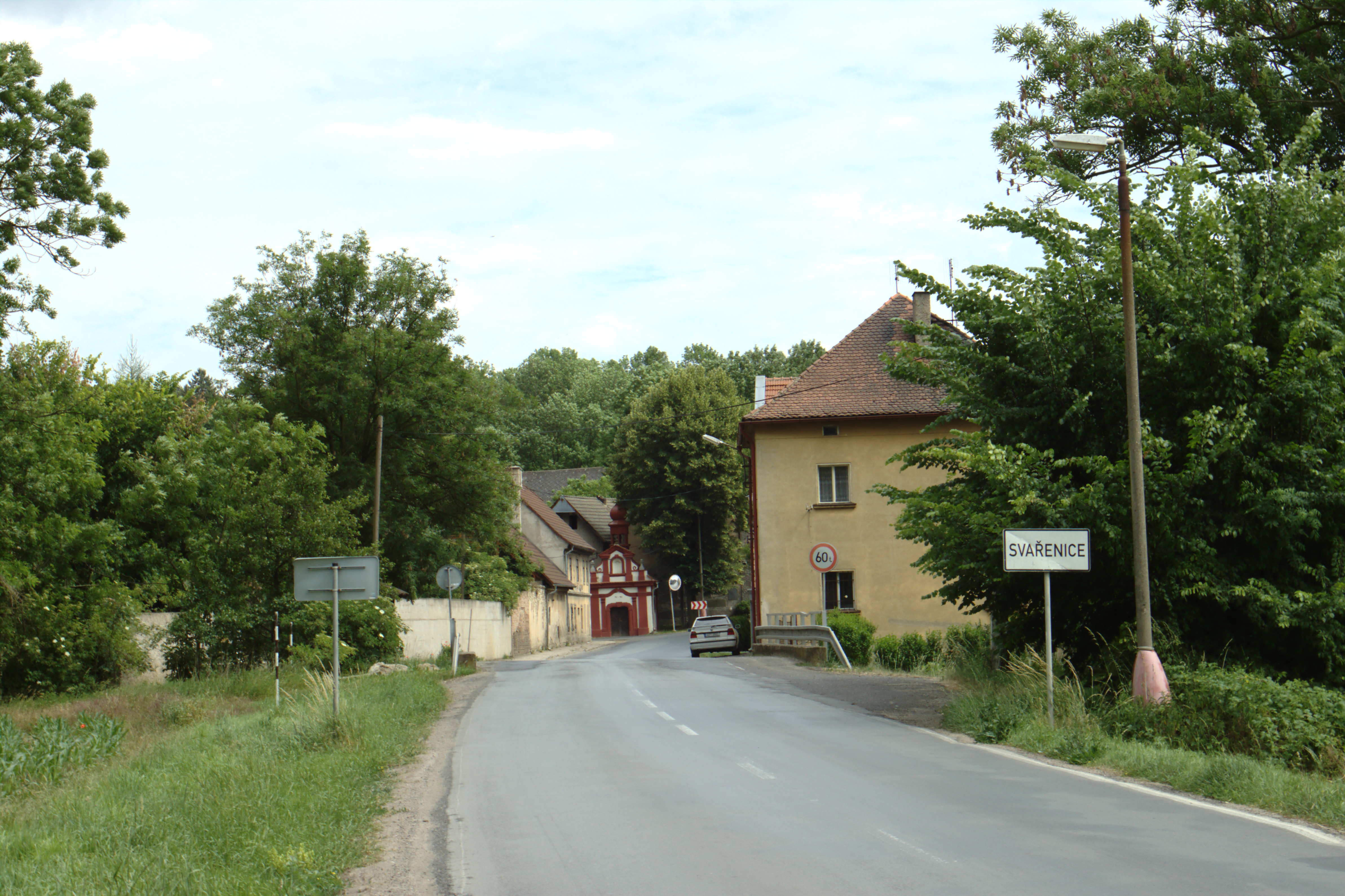 A road from Vrutice to Svařenice /in Svařenice/, Ústí Region, CZ